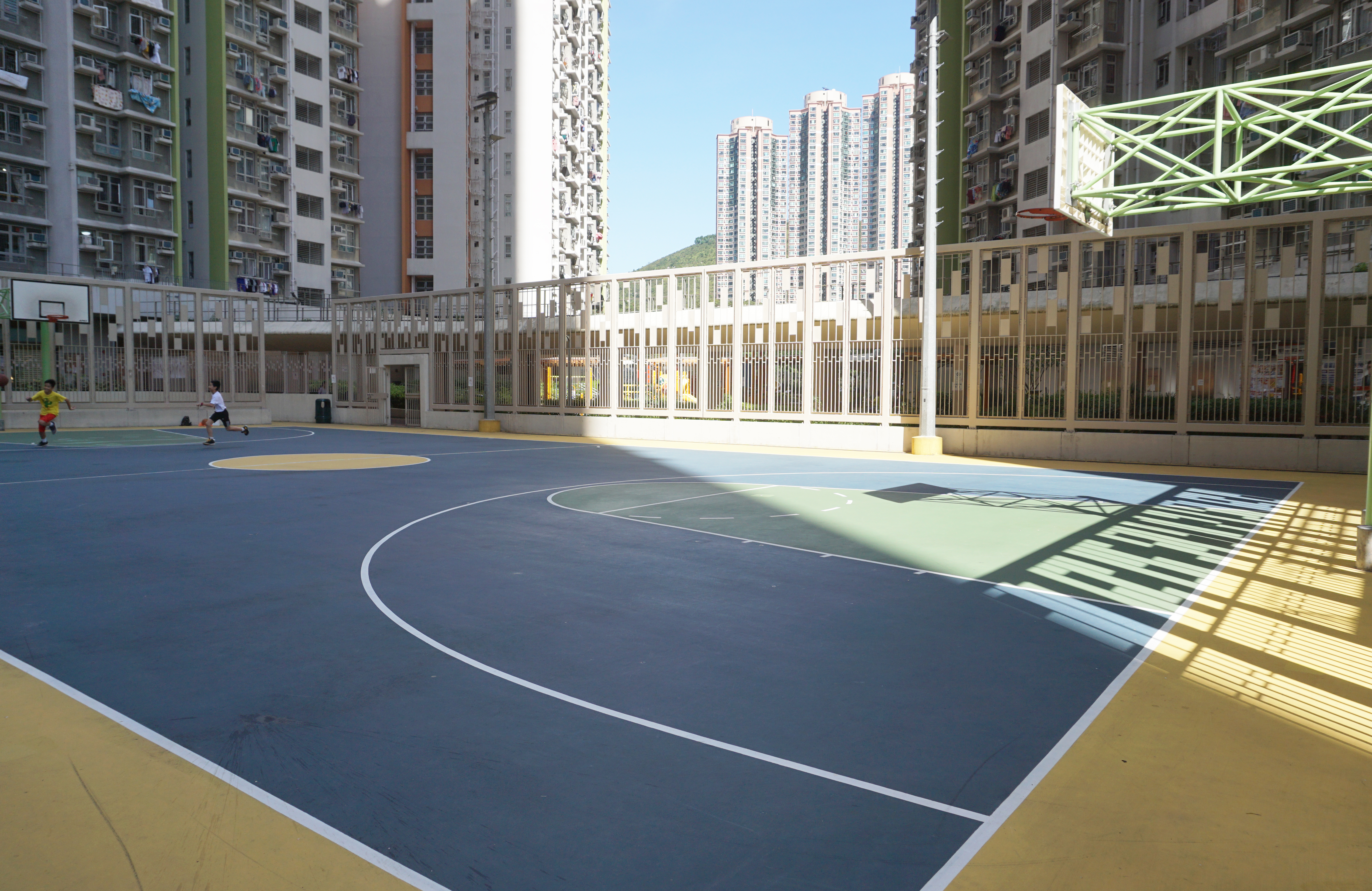 Yee Ming Estate in Tseung Kwan O, Hong Kong.